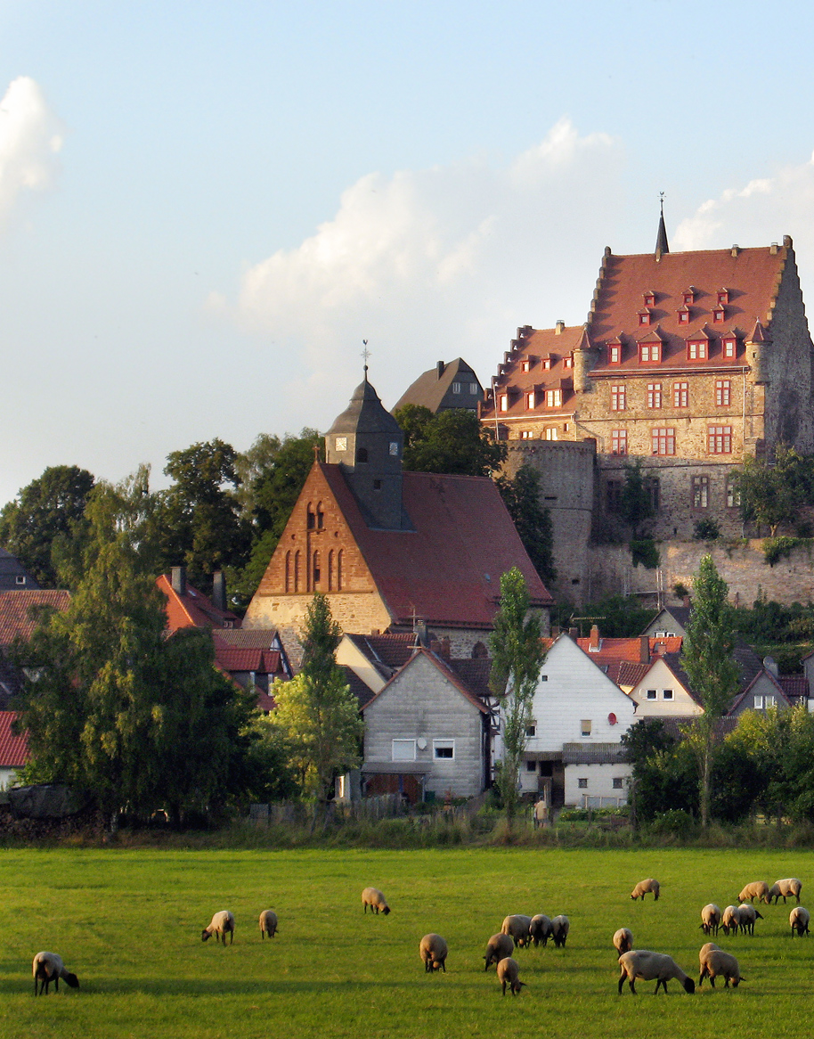 Schweinsberg, a village in the area of Stadtallendorf